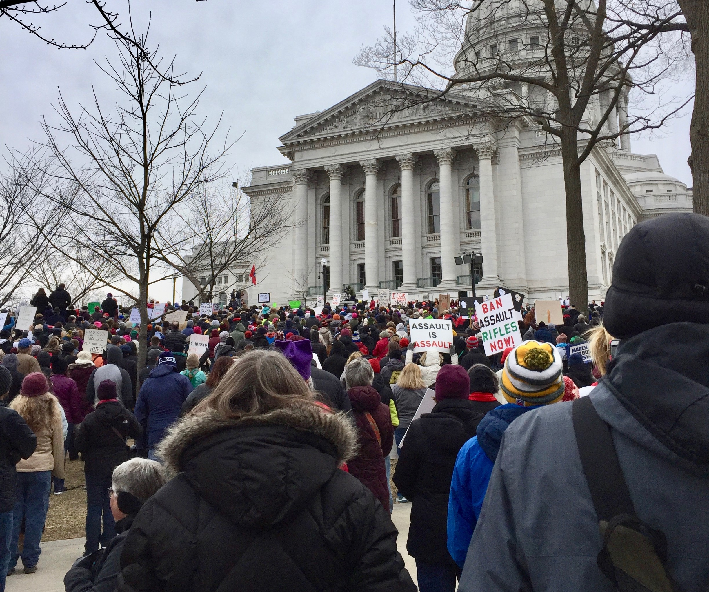 Protesters gathering at the Wisconsin state capitol in Madison for the March for Our Lives protest on March 24, 2018.